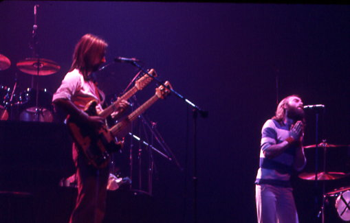 Genesis performing live at Maple Leaf Gardens, Toronto, Canada on 3 June 1977 during their Wind & Wuthering tour.